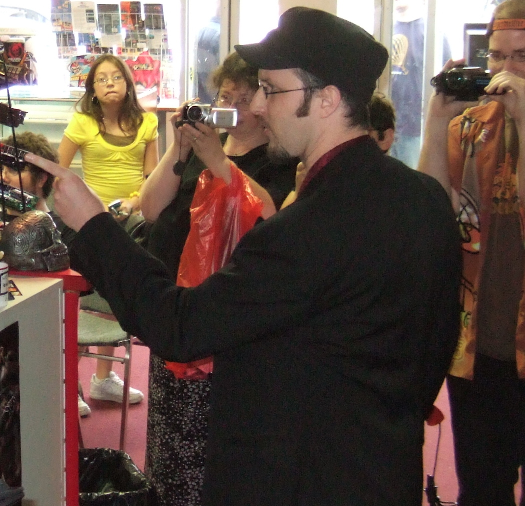 The Nerd (James Rolfe) and the Nostalgia Critic (Doug Walker) come face to face after the Critic accepts the challenge of reviewing a bad game